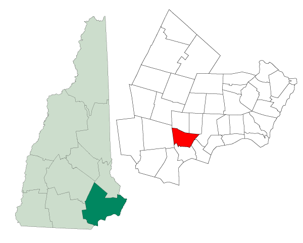 Map of a municipality in Rockingham County, New Hampshire